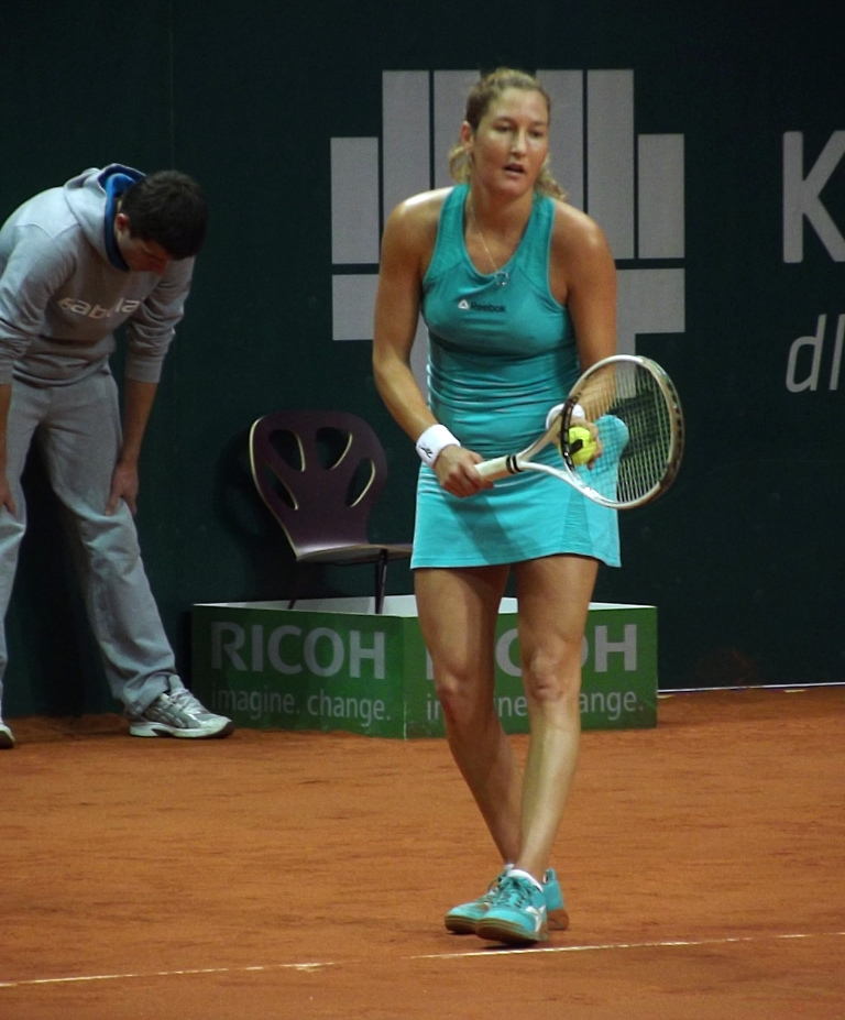 Picture taken during a women's tennis tournament, the BNP Paribas Open Katowice, Spodek in Katowice.